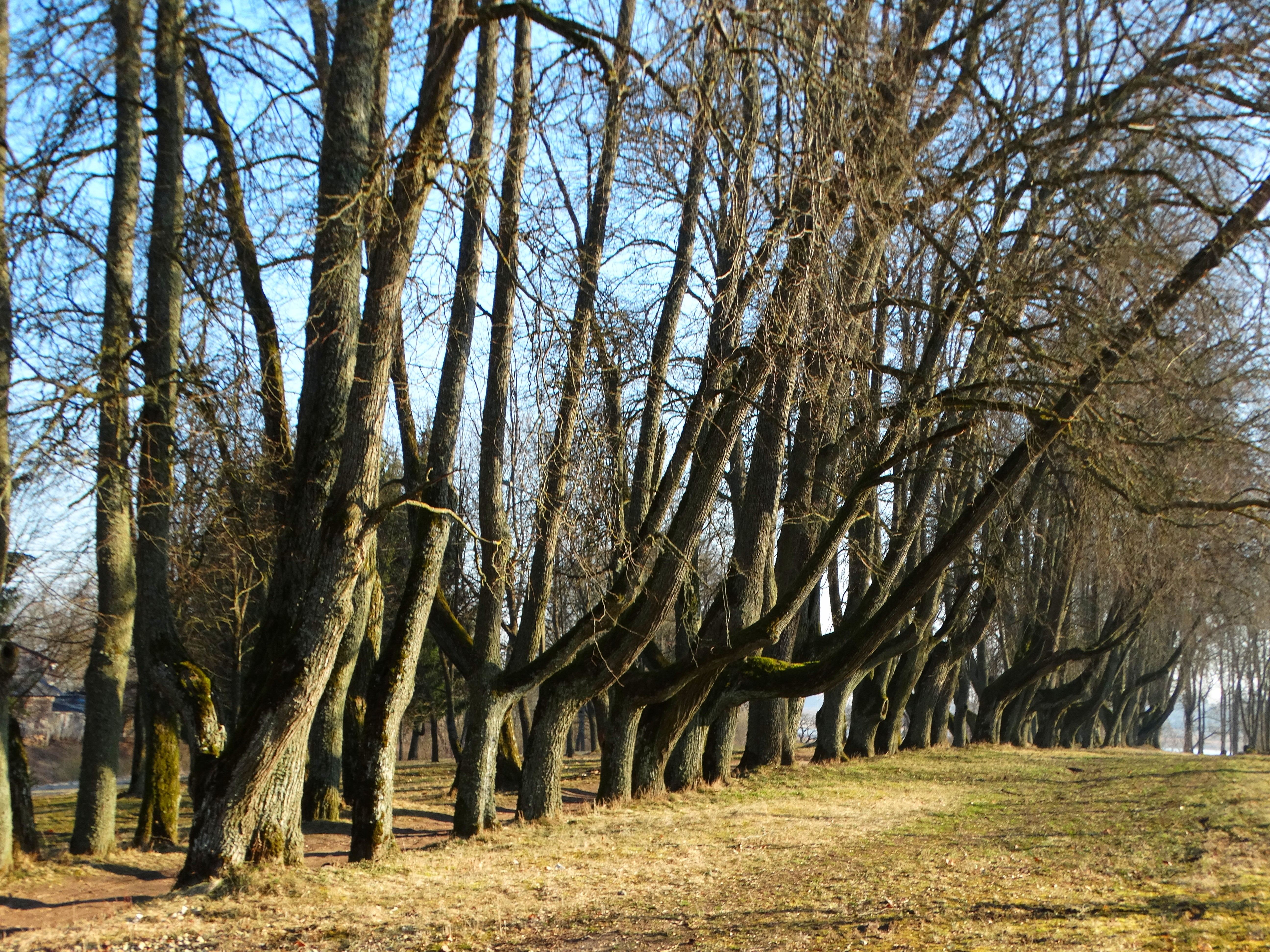 Paežeriai Linden Alley, Šiauliai district, Lithuania